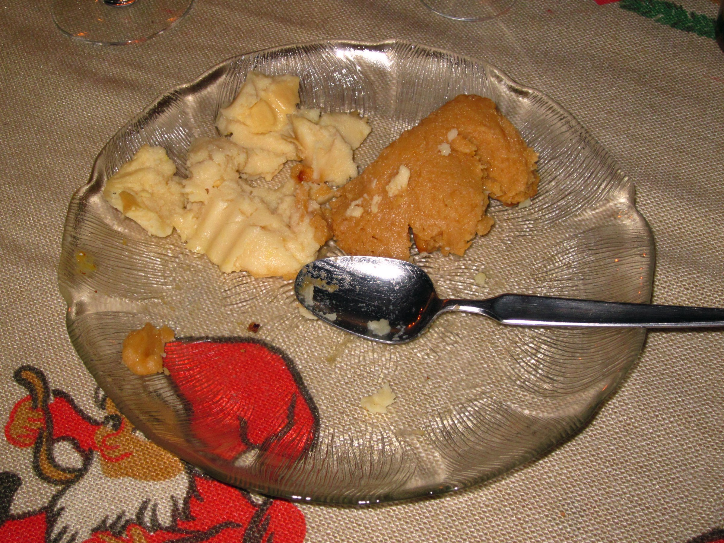 Potato casserole (left) and Rutabaga casserole (right) are traditional finish christmas food.